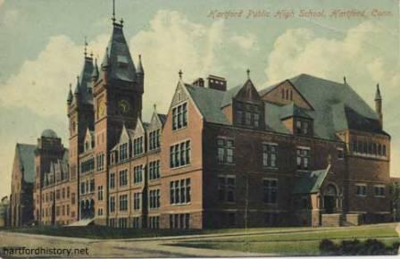 Original Hartford Public High School in Hartford, Connecticut. 1911 postcard.